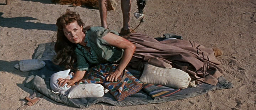 Nancy Gates in Comanche Station (1960)